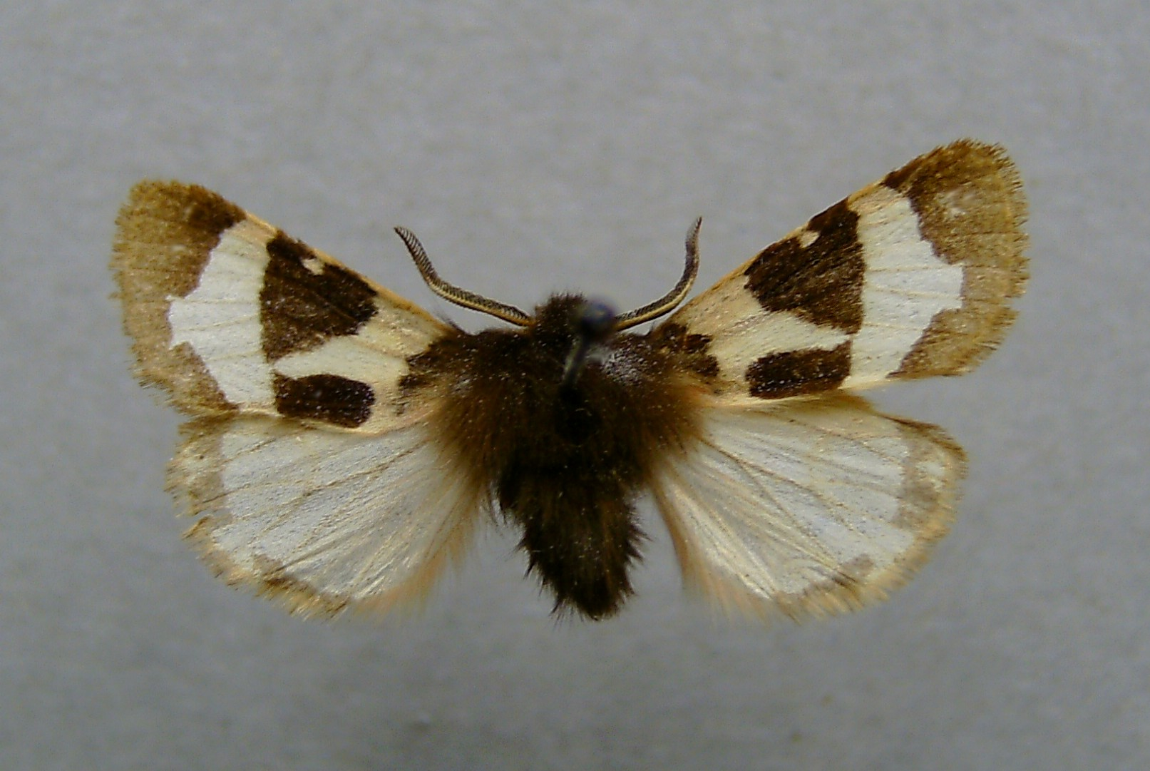 Watsonarctia casta, Lleida, Spain